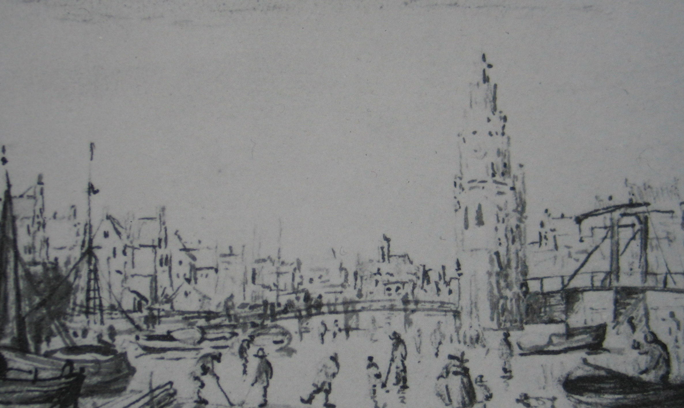 The Album Amicorum of Jacob Heyblocq